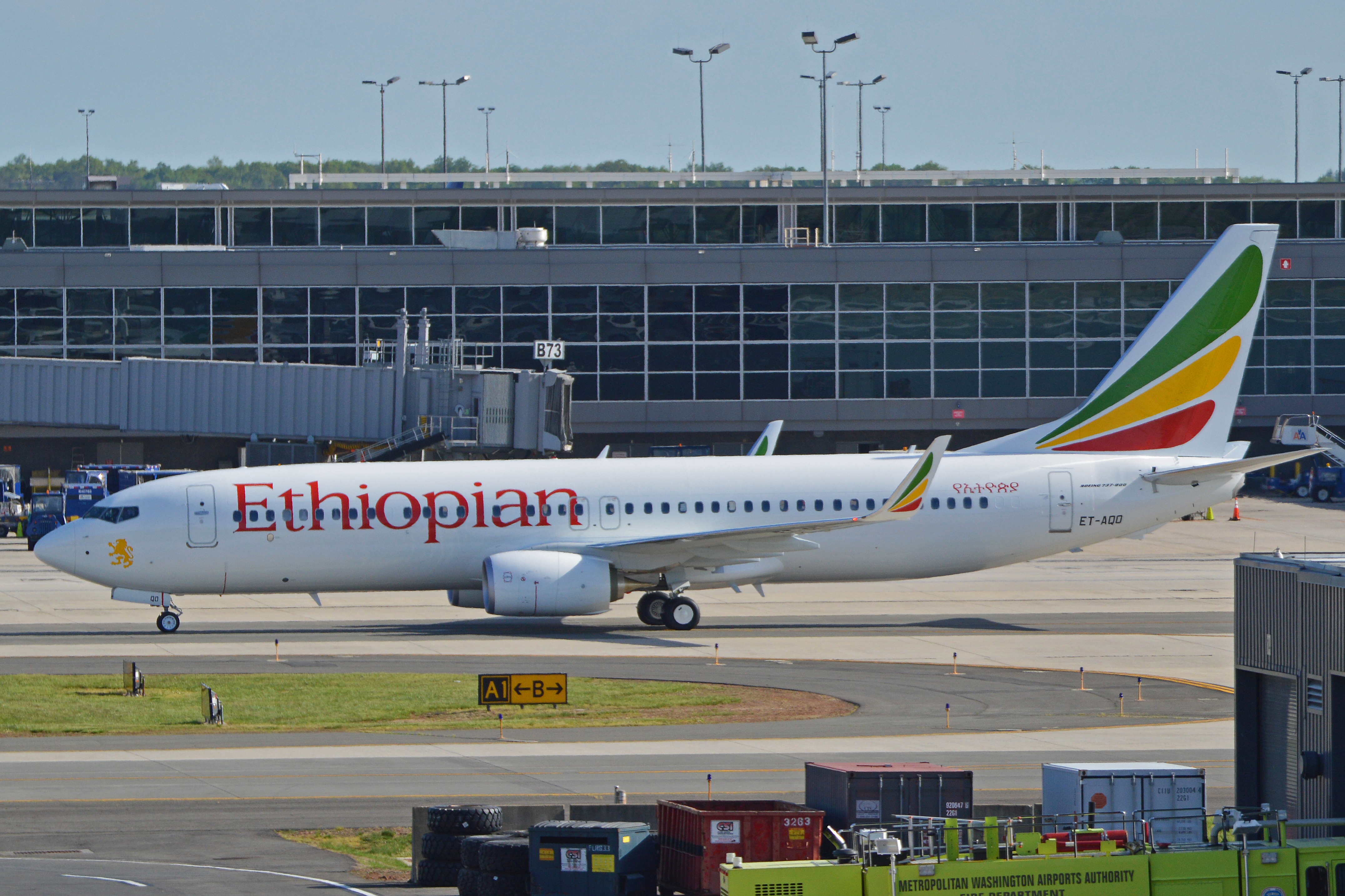 c/n 40968, l/n 5399. First flew 29-4-2015. Seen on its delivery flight, while passing through Washington Dulles Airport, Virginia, USA. 09-5-2015